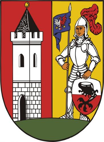 Coat of arms of Czech town Bezdružice